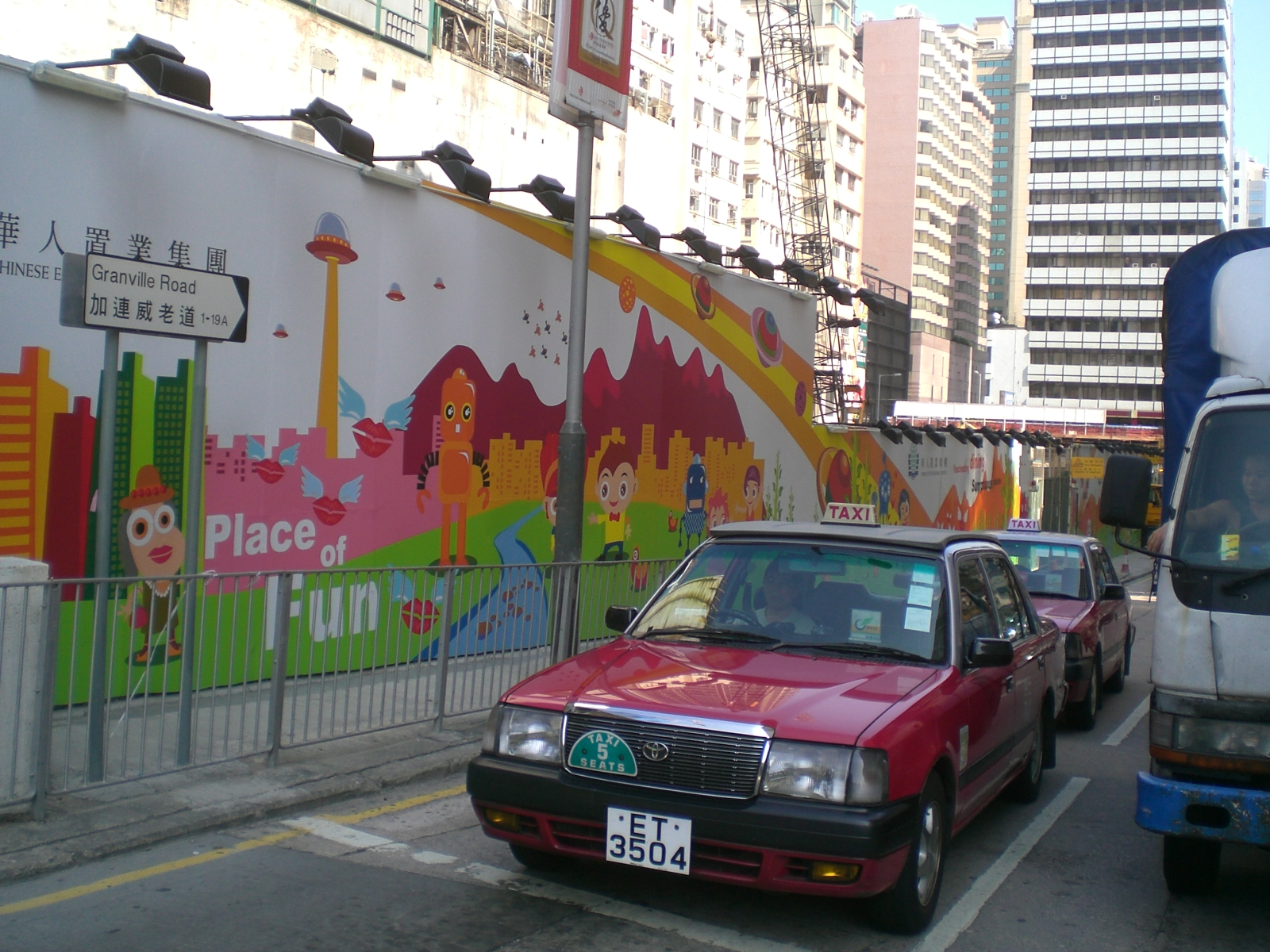 加連威老道, Granville Road, TST, Hong Kong